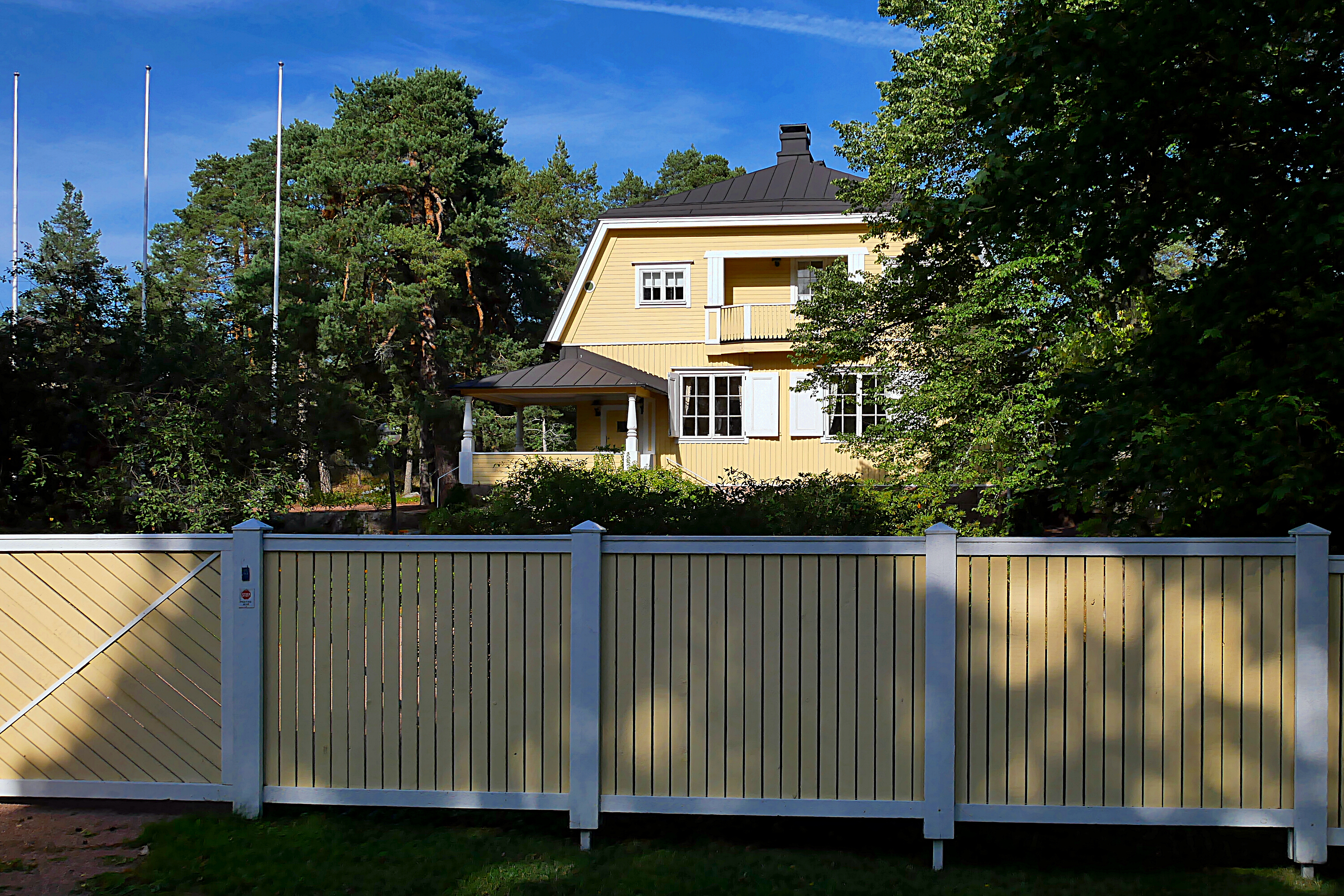 Villa Koli, Espoo, Finland